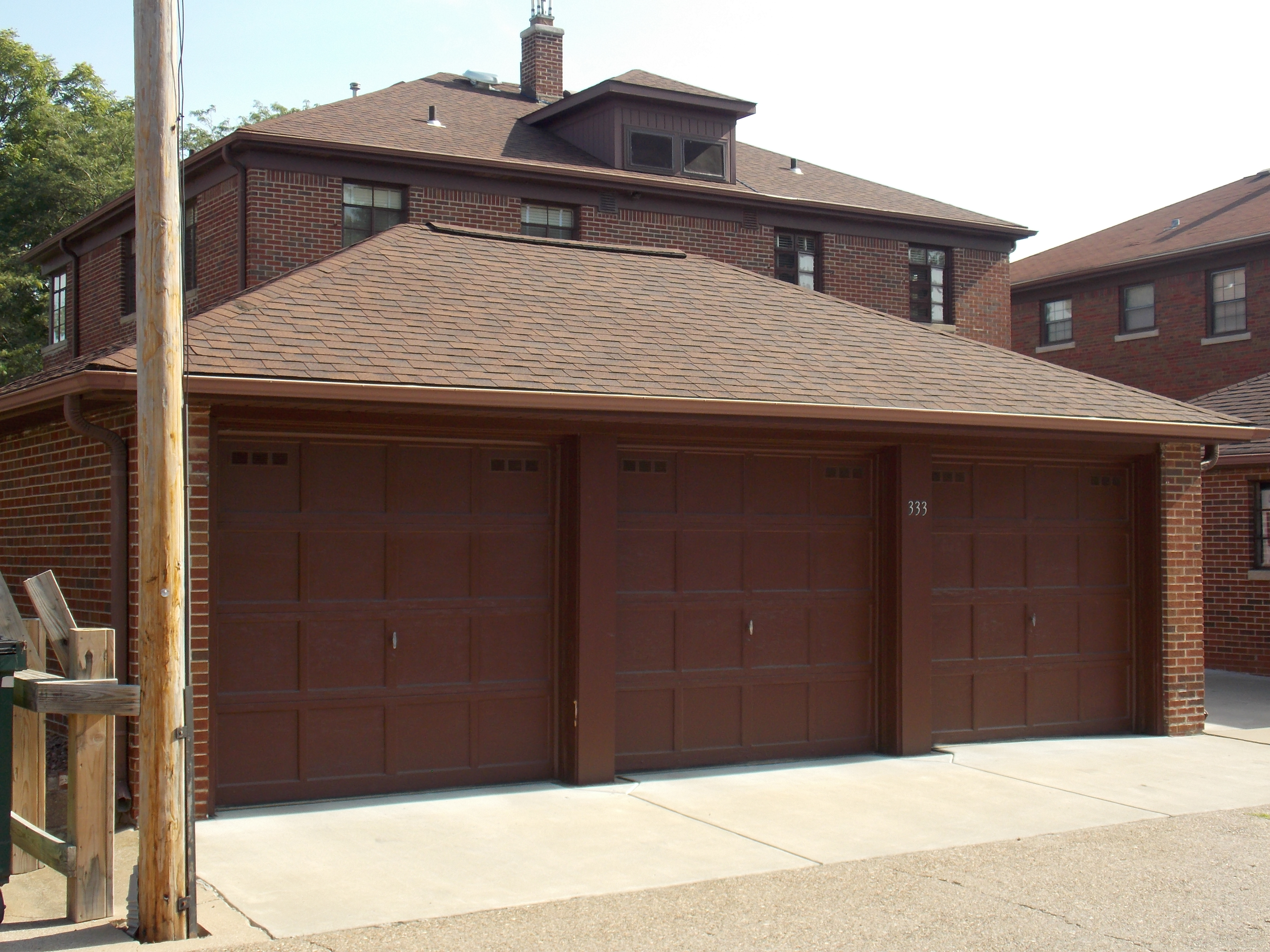 The alley-side of a garage in the Columbia Avenue Historic District, Davenport, Iowa .